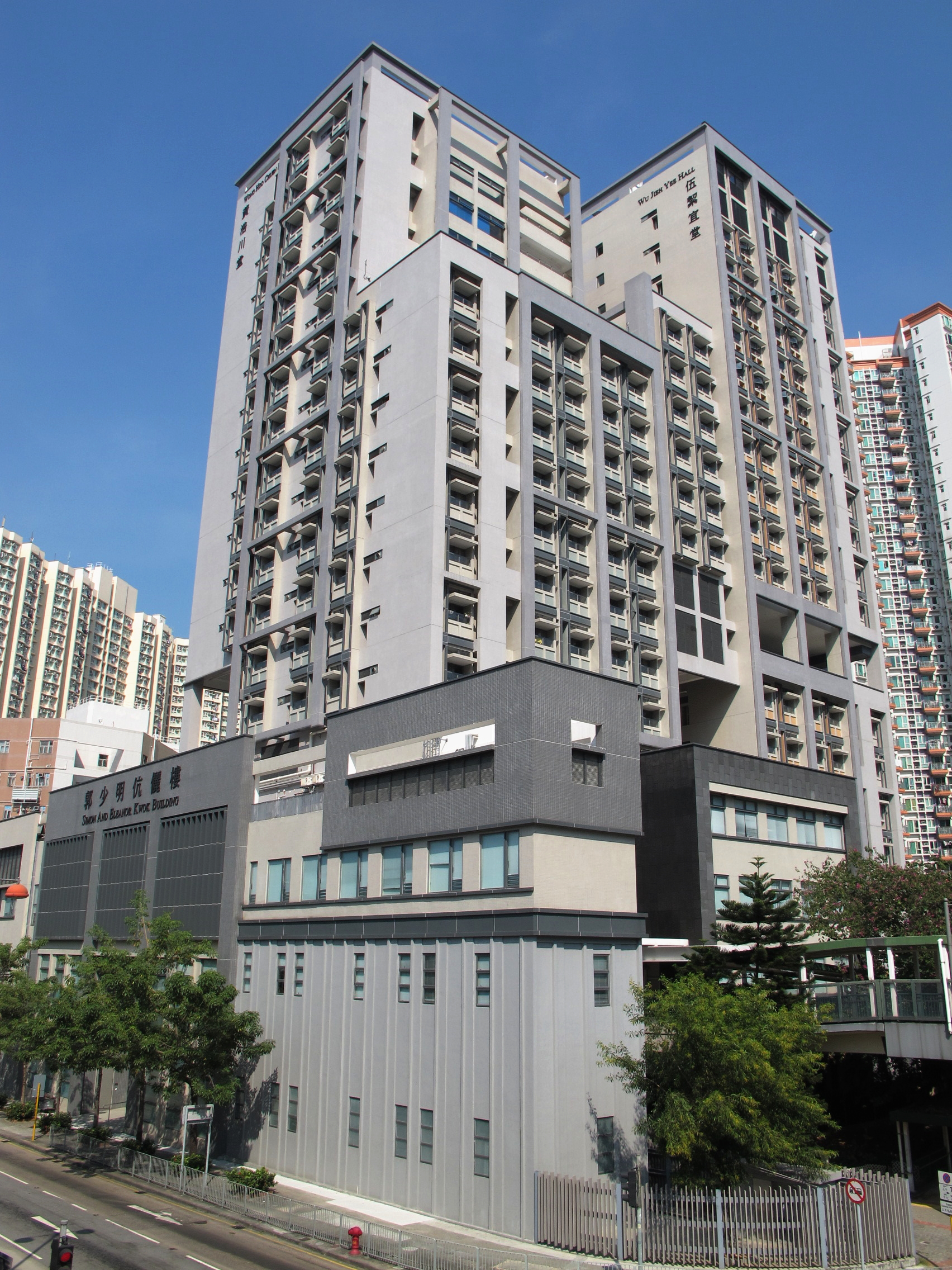 Lingnan University WHC & WJY Hall